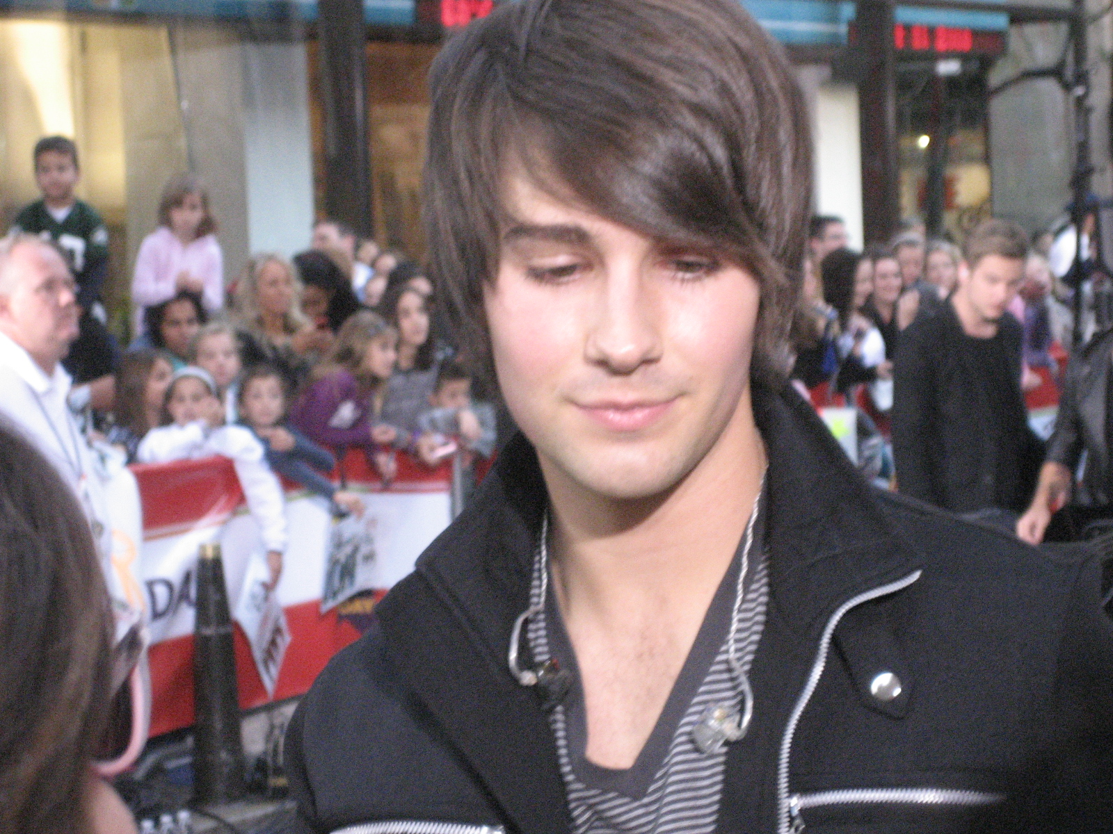 James Maslow, Big Time Rush Today Show Rockefeller Plaza, NYC